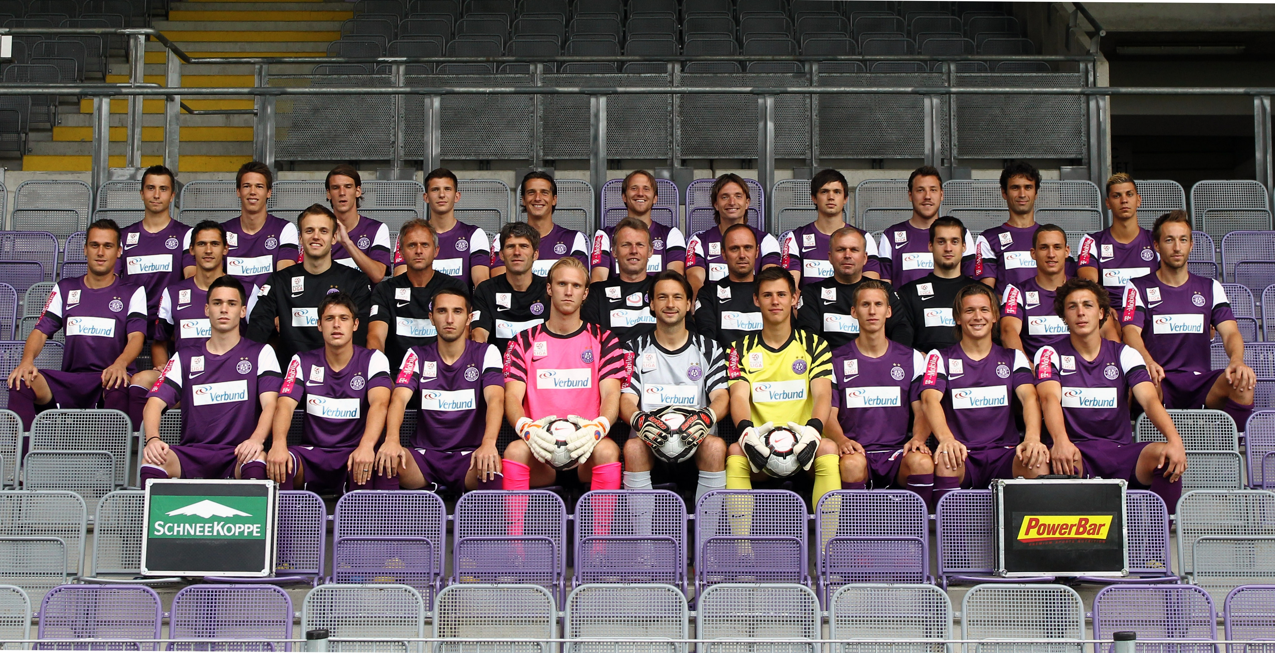 FK Austria Wien Austrian Football Bundesliga 2010–11 → For the names of the players move the mouse over the photo.